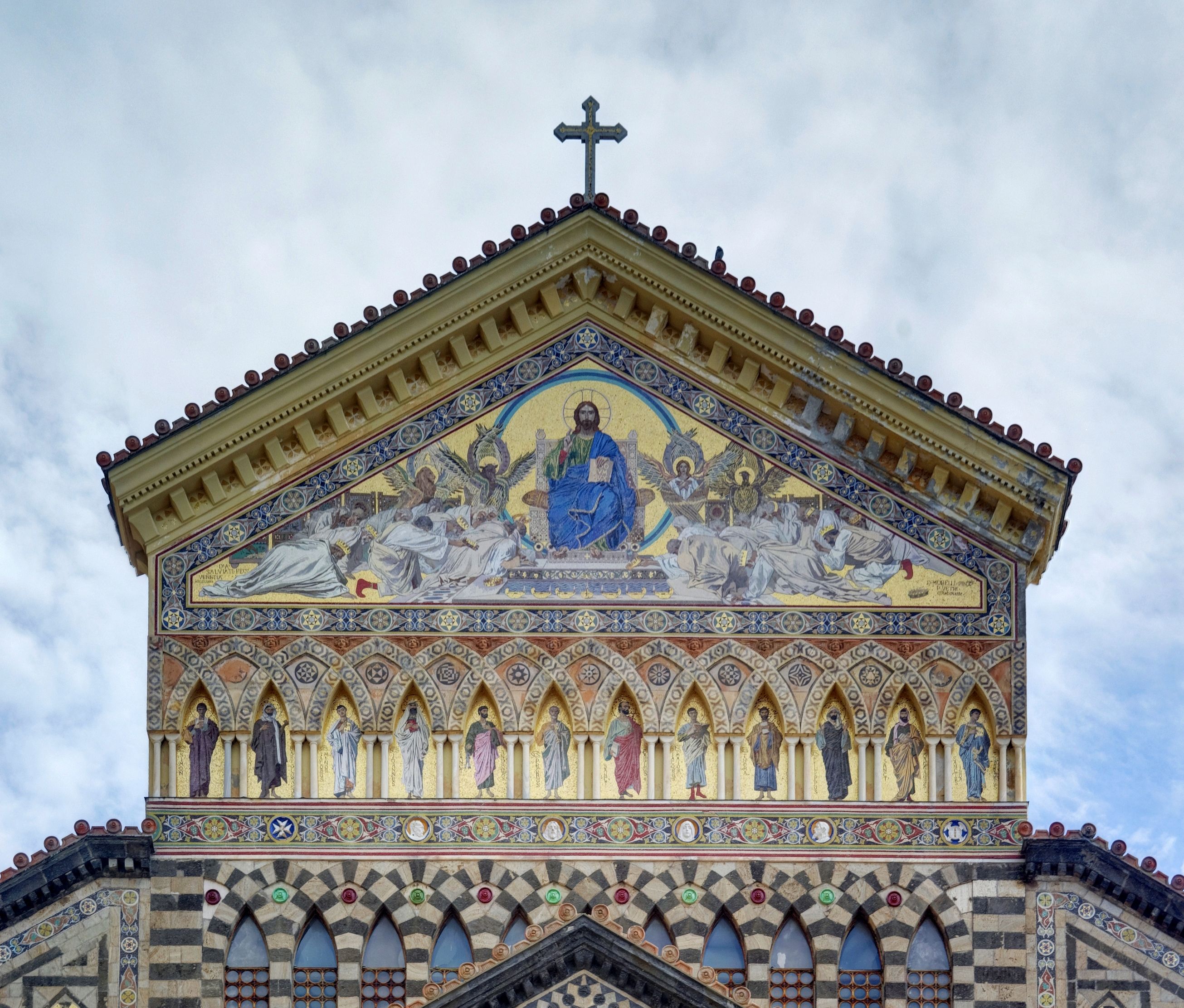 Amalfi, cathedral, gable